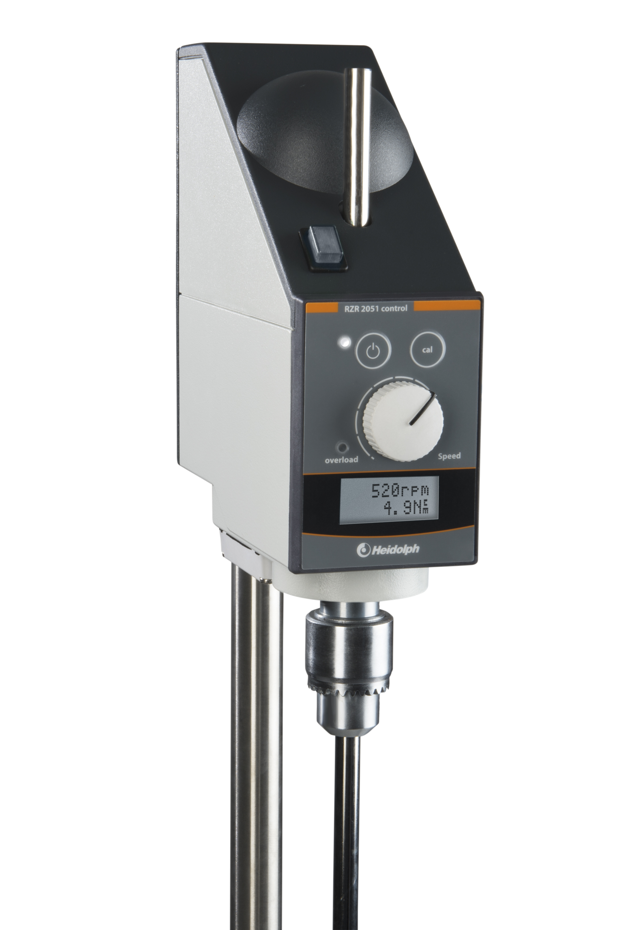 RZR overhead stirrer